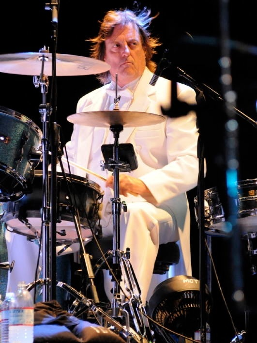 Prairie Prince, Drumming during Todd Rundgren's "A Wizard, A True Star Tour" San Fransisco CA